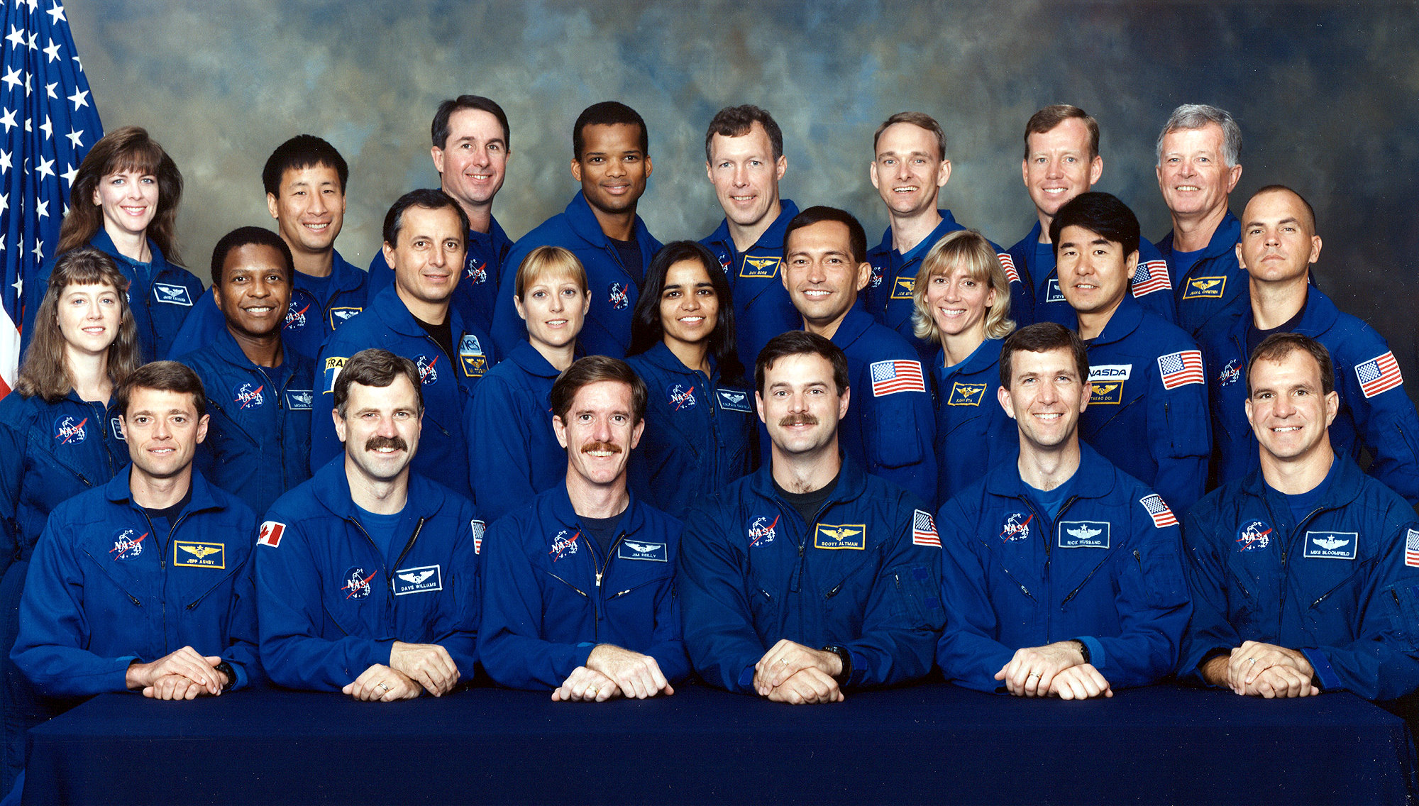 None.